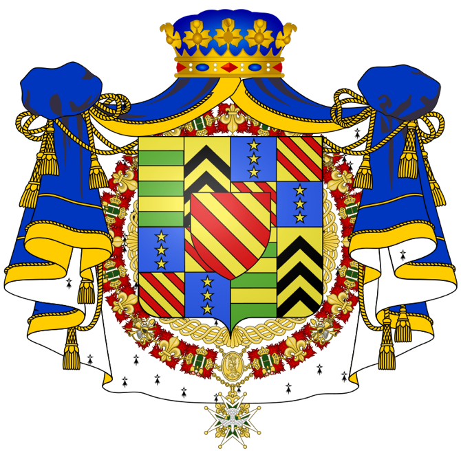 maison de crussol